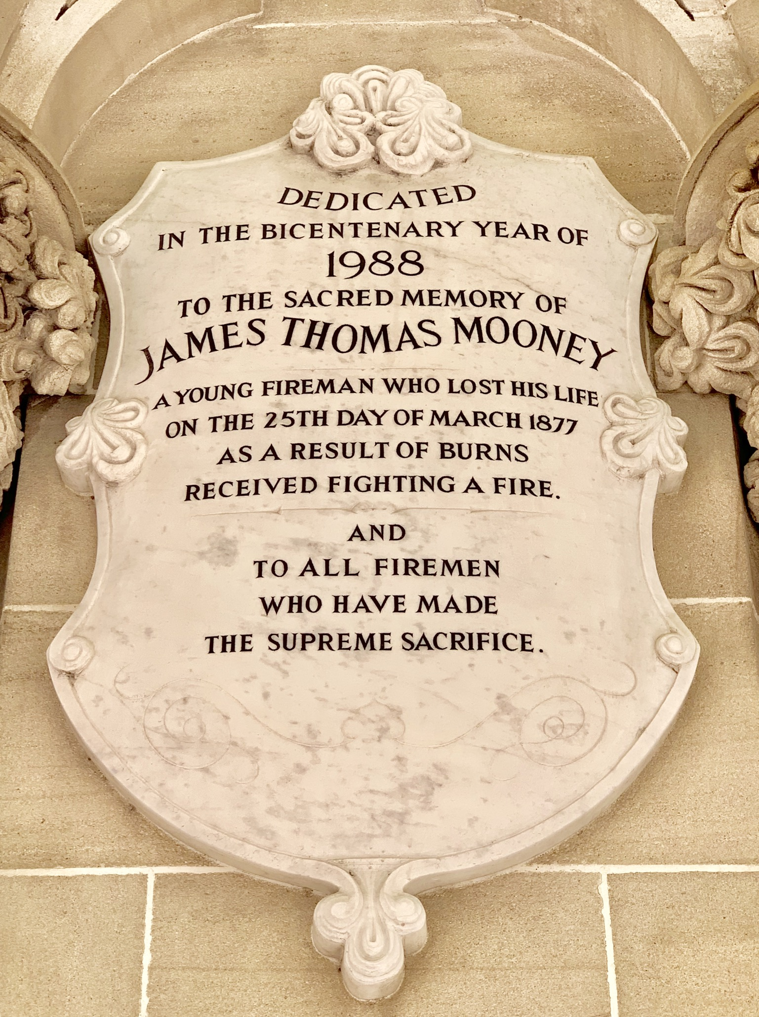 Rear plaque Mooney Memorial Fountain, Brisbane in 2019